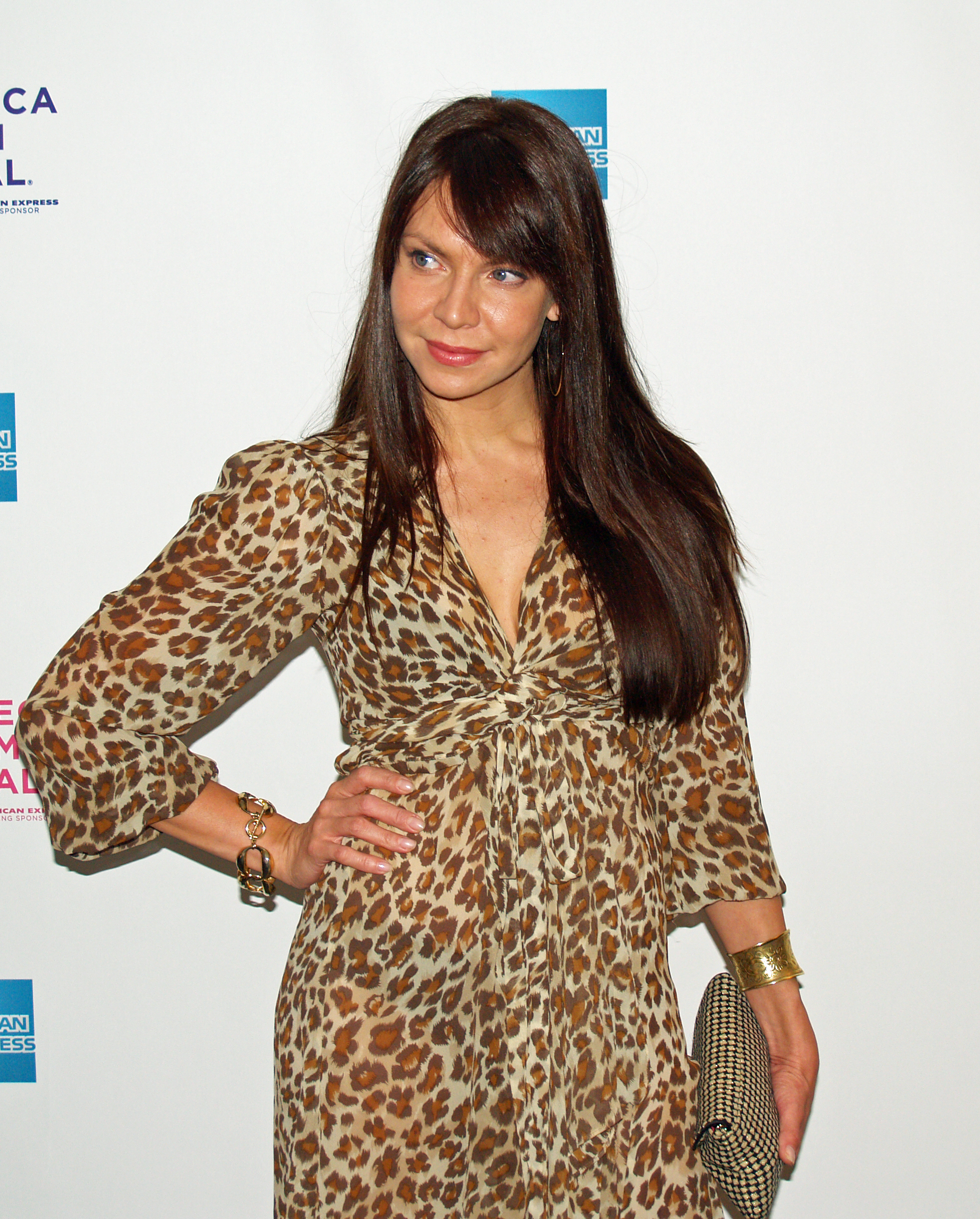 Cyia Batten at the premiere of Killer Movie at the 2008 Tribeca Film Festival.